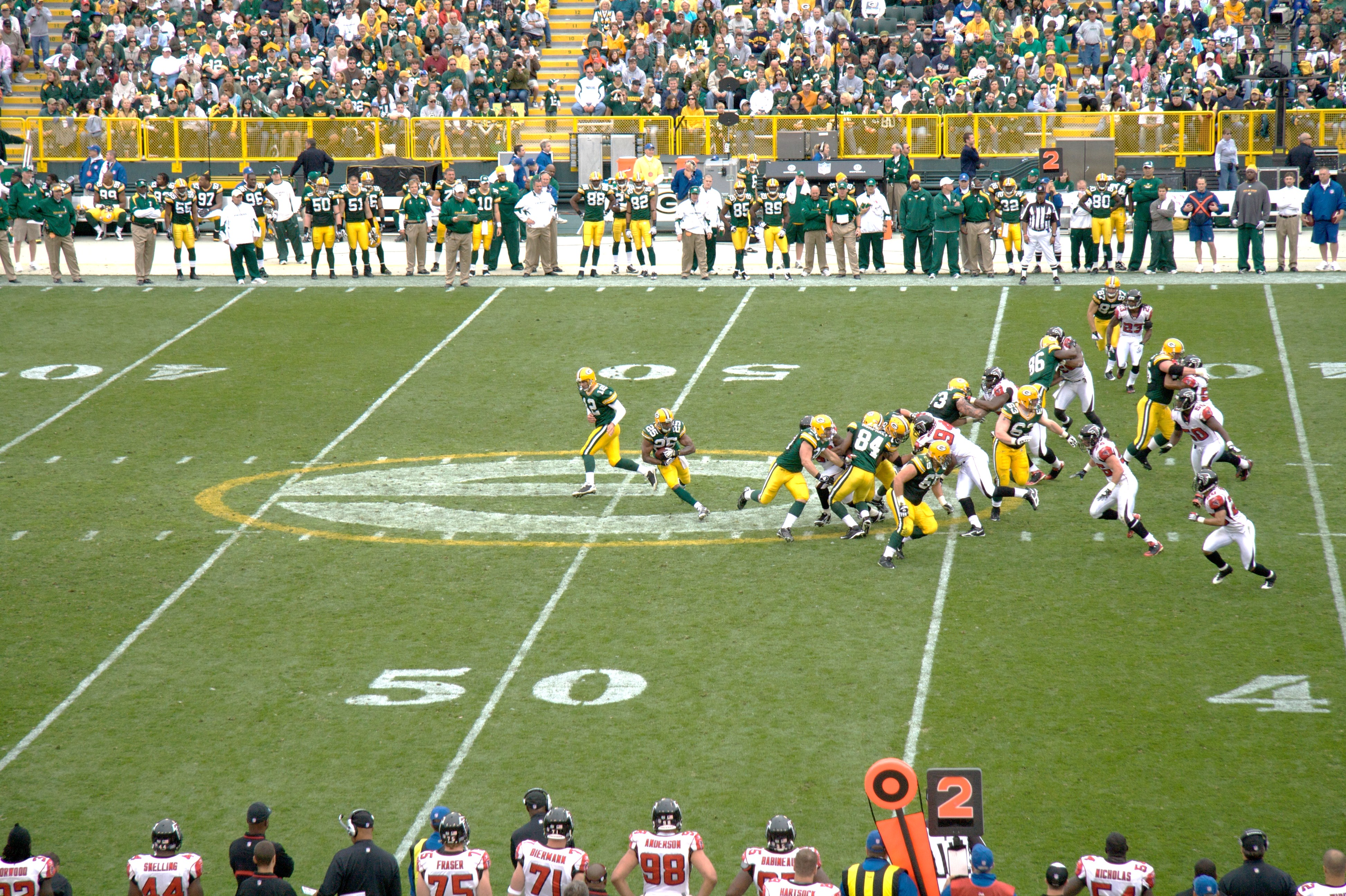 Ryan Grant takes a handoff from Aaron Rodgers